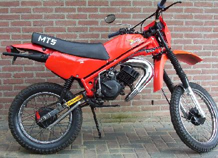 Honda MT50